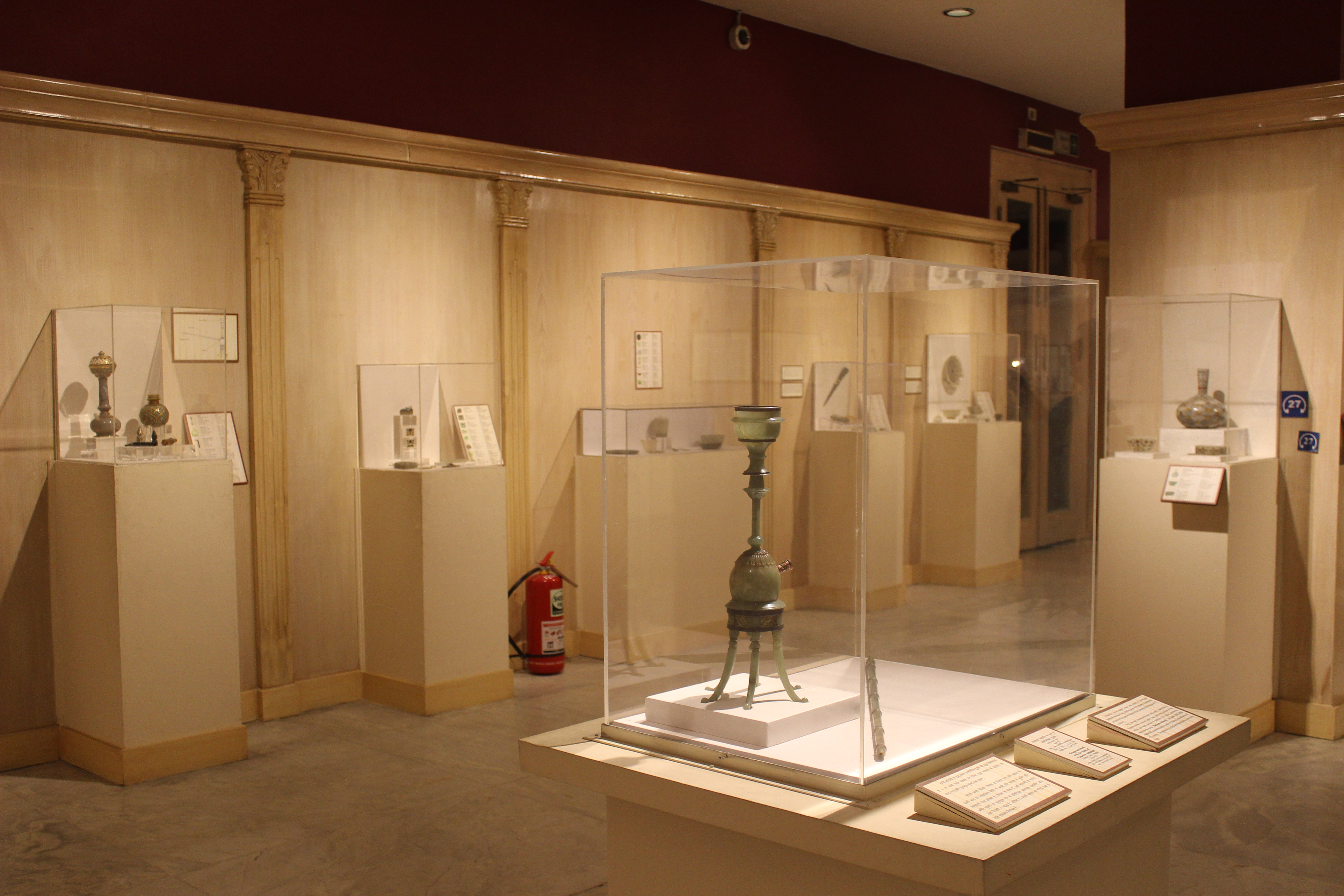 Decoratives Arts Gallery (Jade Collection)